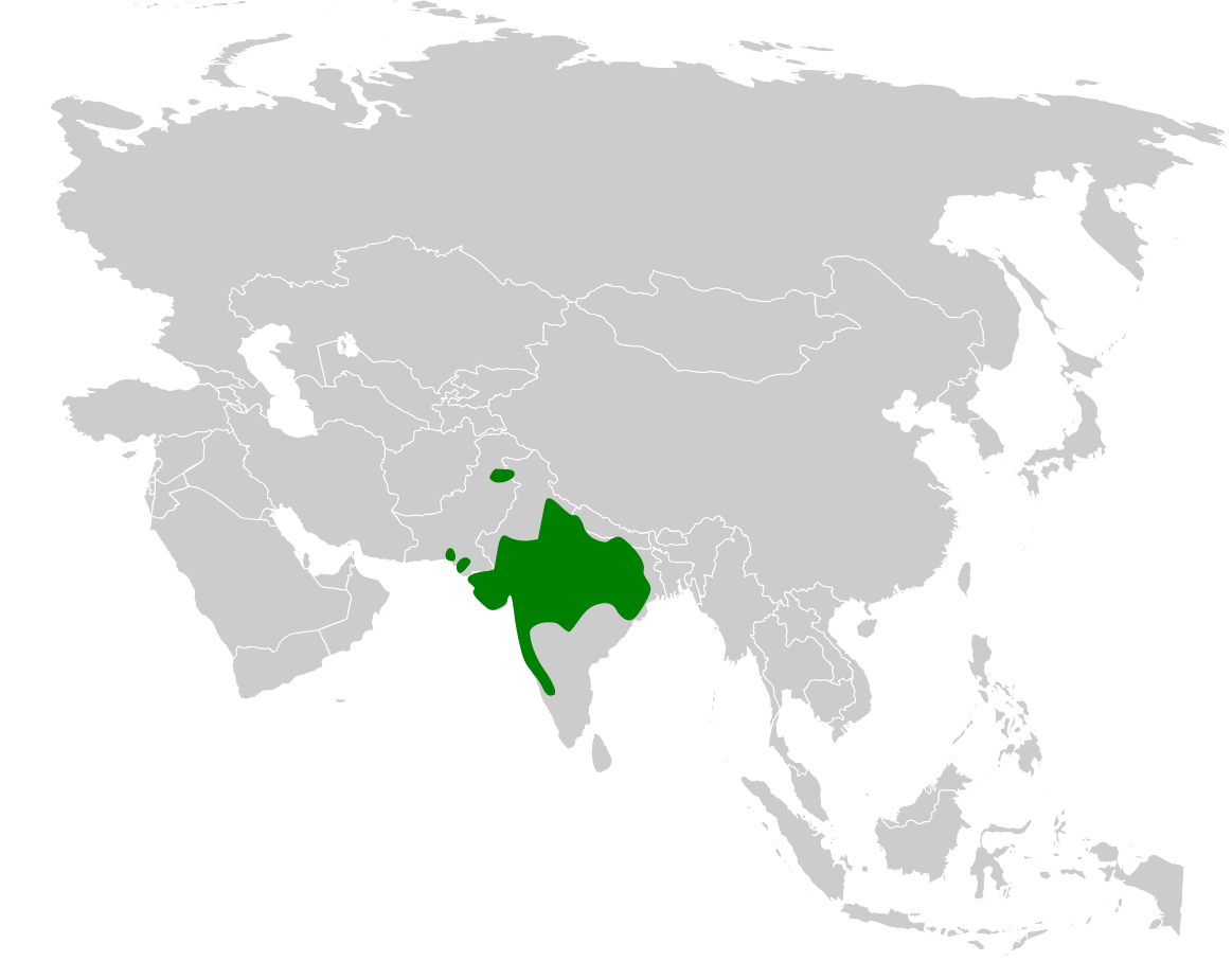 Mirafra erythroptera distribution map; using BlankMap-Africa.svg, based on